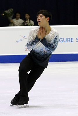 Jin Seo KIM KOR – 9th Place